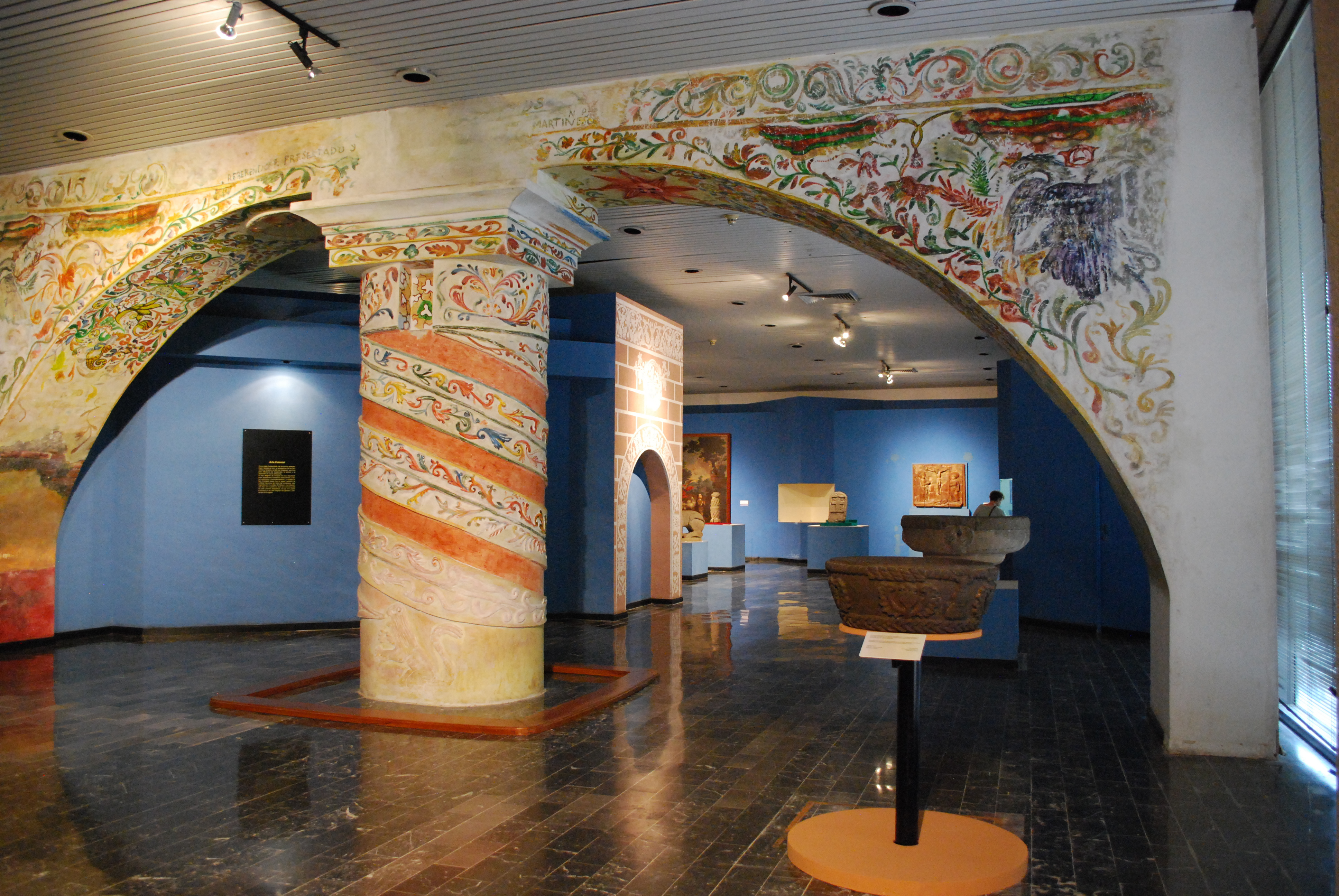 Part of history hall decorated in colonial style at the Regional Museum in Tuxtla Gutierrez, Chiapas, Mexico